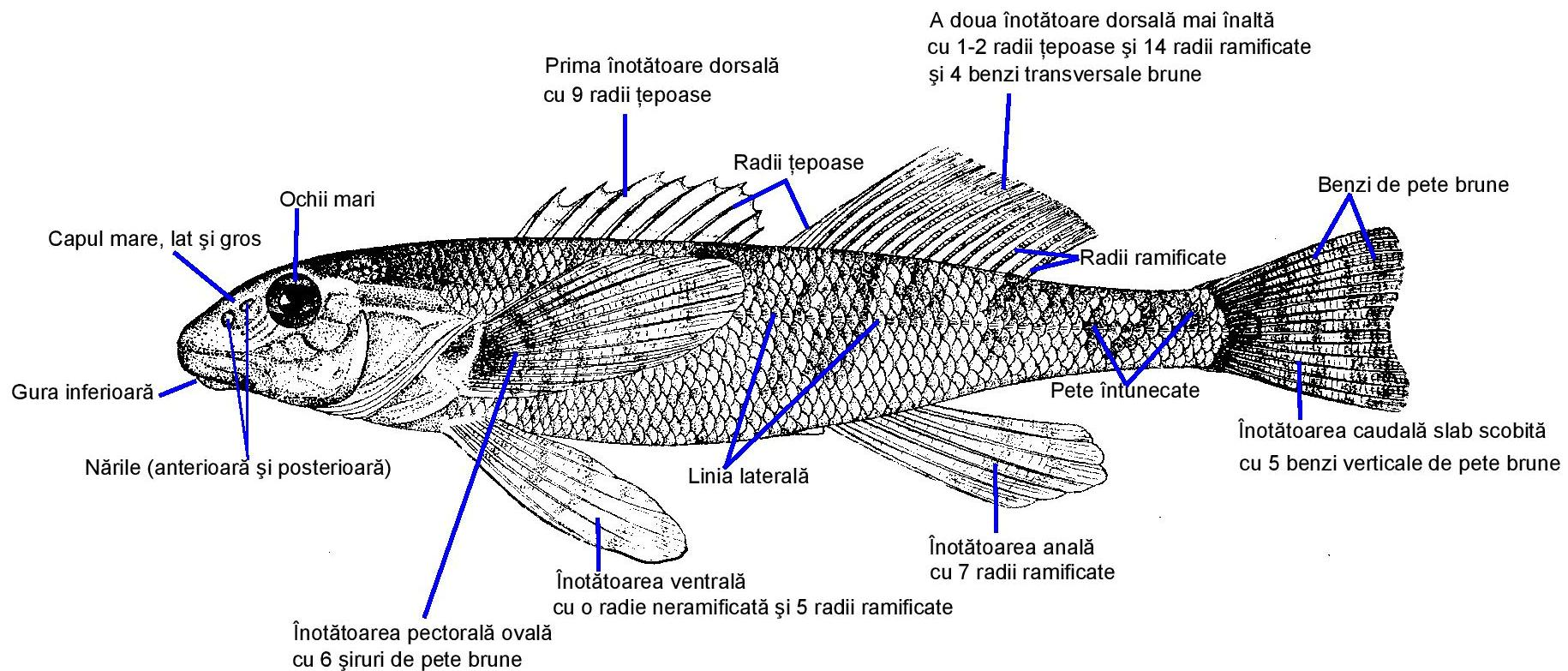 Romanichthys valsanicola